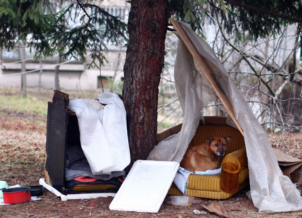 A homeless dog in Sofia, Bulgaria